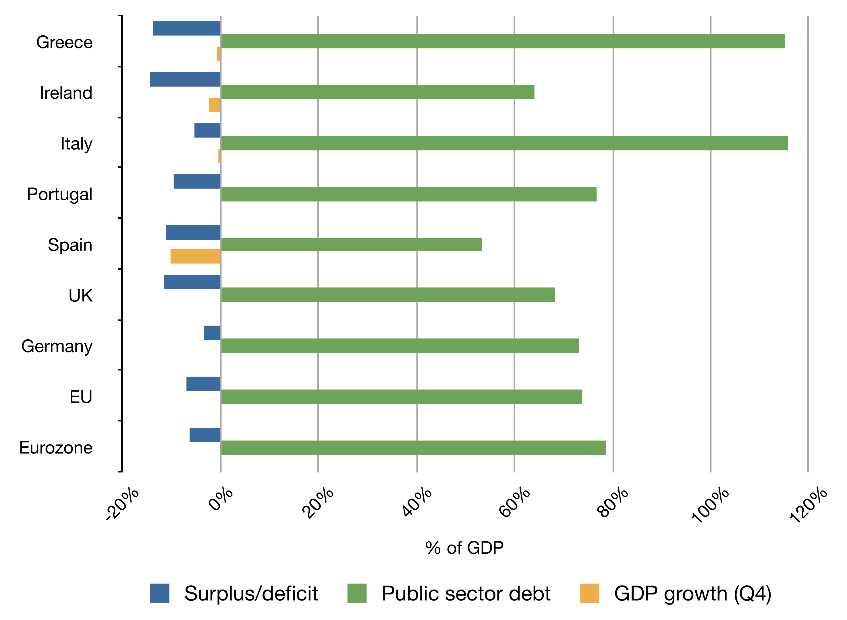 A graph showing the economic data from Portugal, Italy, Ireland, Greece, Spain (PIIGS), the United Kingdom, Germany, the EU and the Eurozone for 2009. Data is taken from Eurostat: Most data: GDP growth: Ireland growth (preliminary)